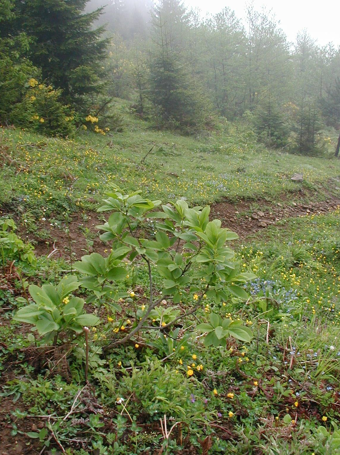 The Rhamnus imeretina as seen in its natural habitat at Kafkasör, near Artvin, Eastern Turkey.